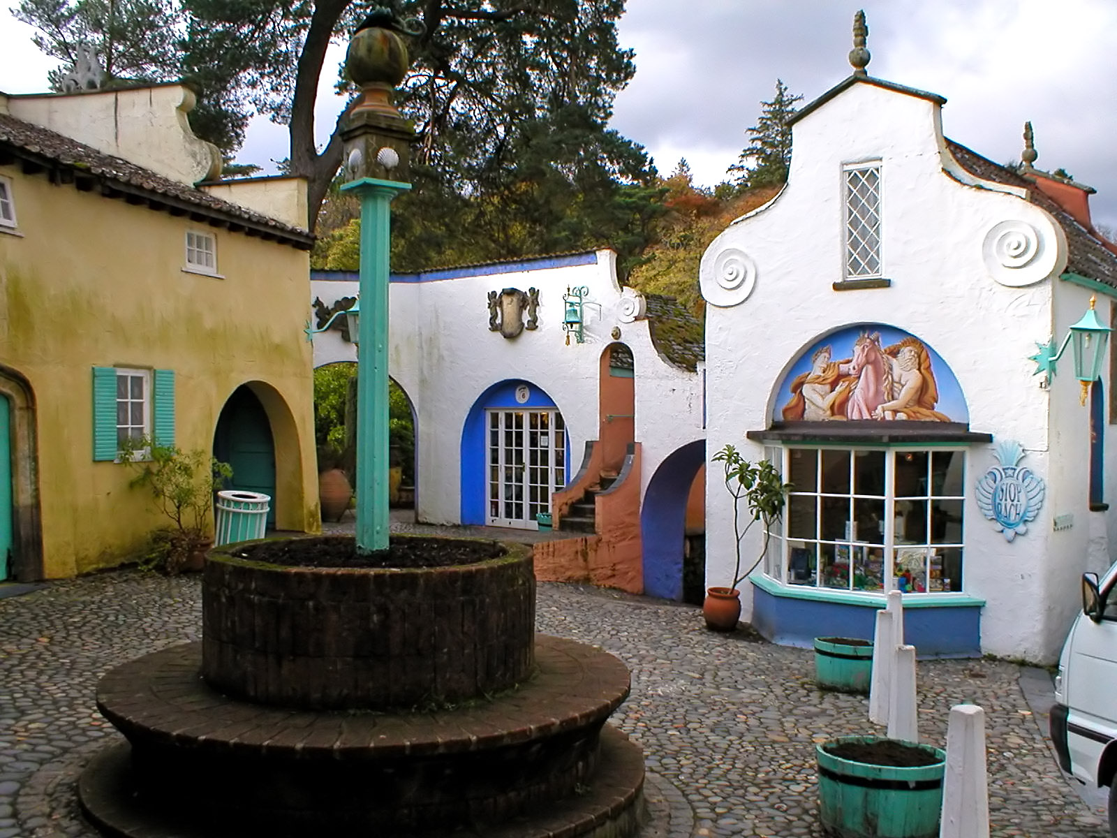 View of battery square in Portmeirion. Author: Chris Jones